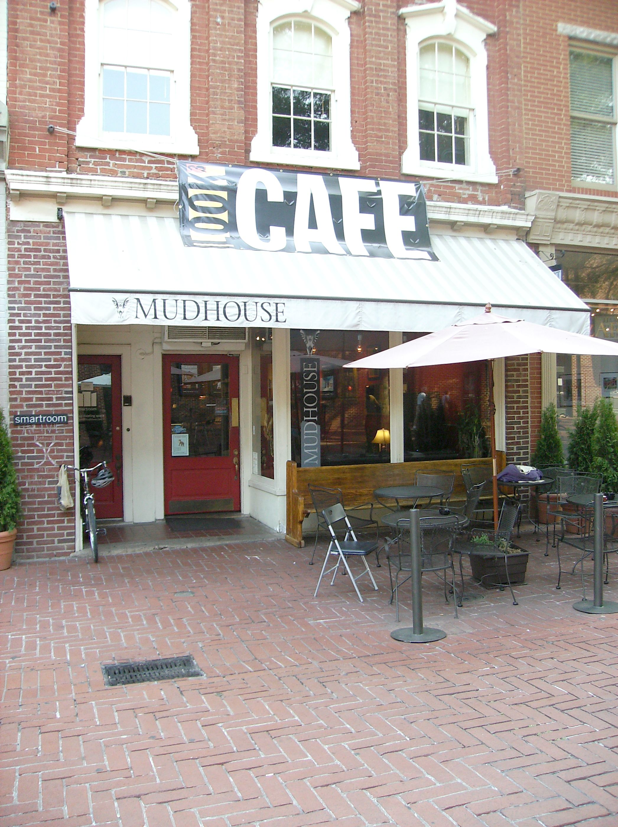 Mudhouse Coffee Roasters main location at 213 W. Main Street on the Downtown Mall in Charlottesville, Virginia.